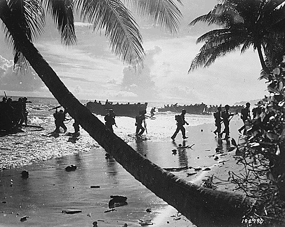 US troops of the 160th Infantery Regiment on beach of Guadalcanal